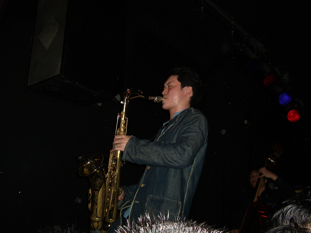 PE'Z Live in 2006